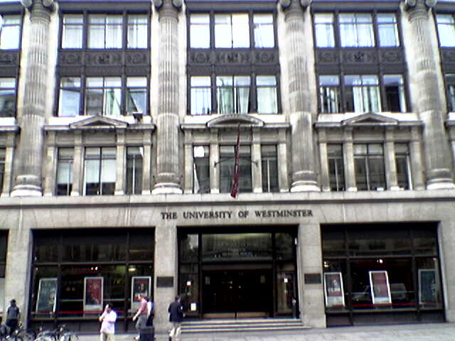 University of Westminster (Regent Street)